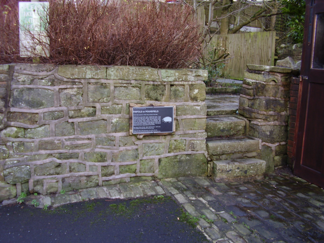 Photo of pinfold in the village of Higham. Taken in January, 2007, by Bob Stowell.